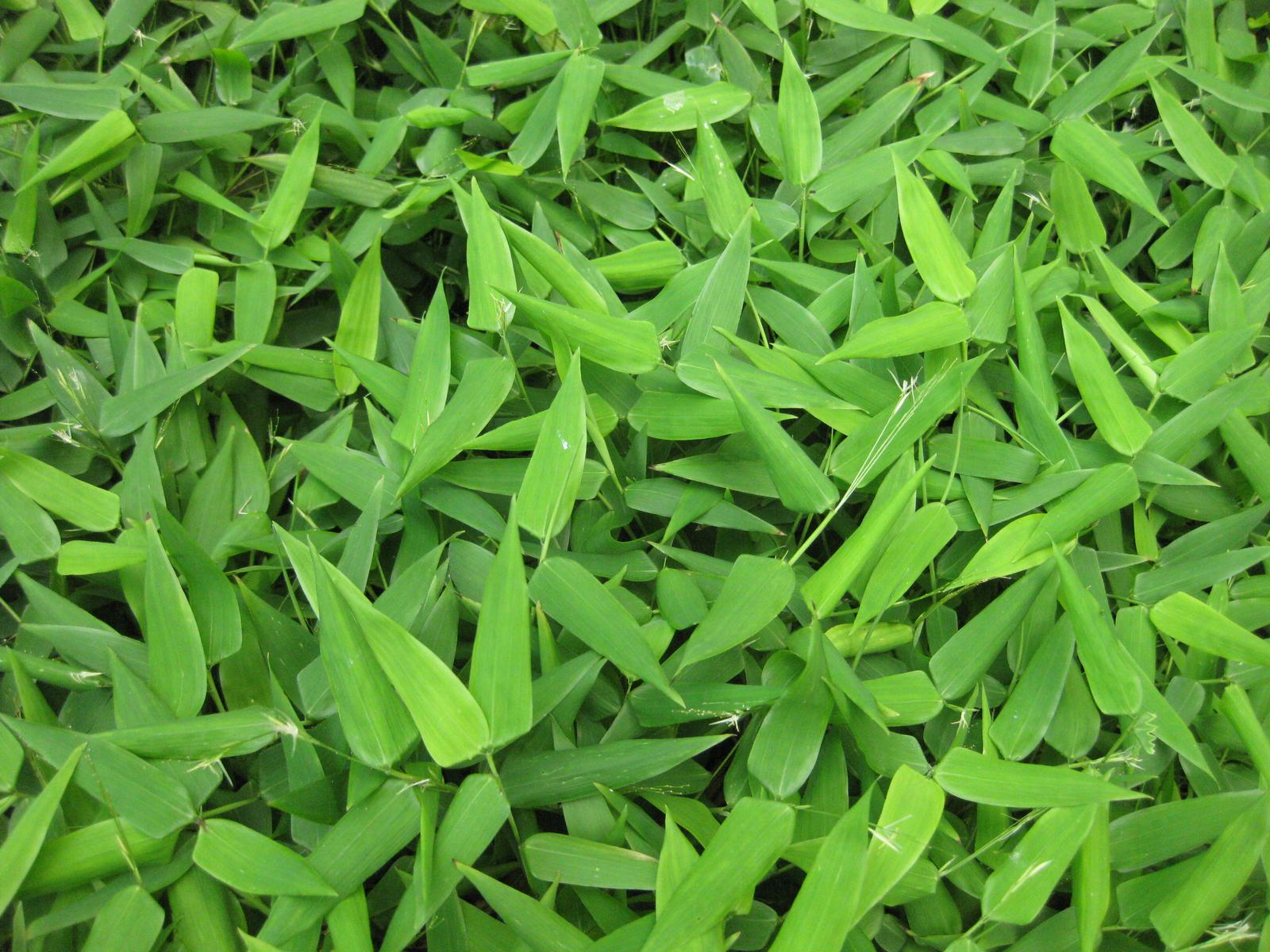 Photographed at Huntington Gardens (Los Angeles, California) in August